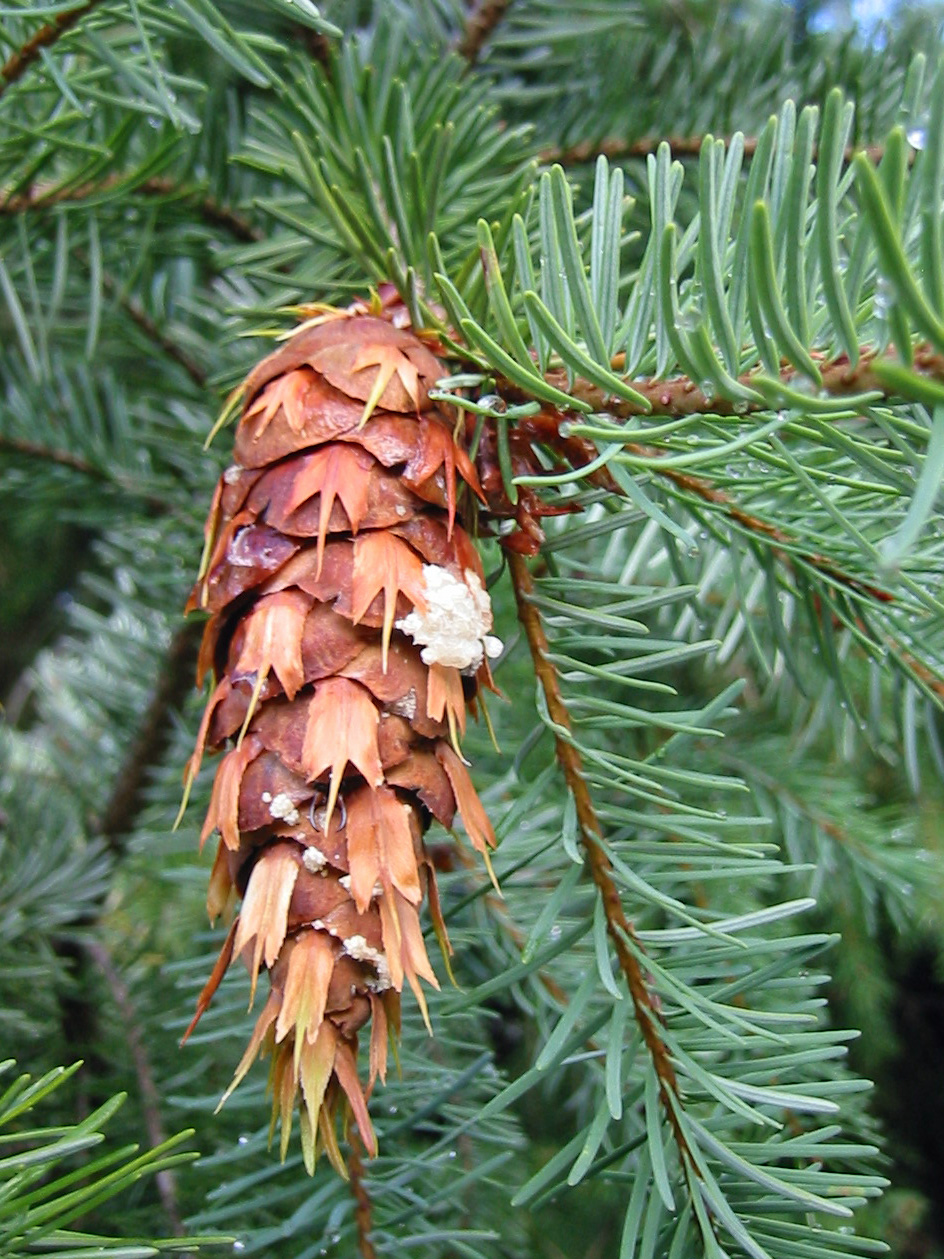 Douglas-fir cone and foliage. Resin from the tree adheres to cone scales several places. The approximately 15 m high tree is in a meadow.